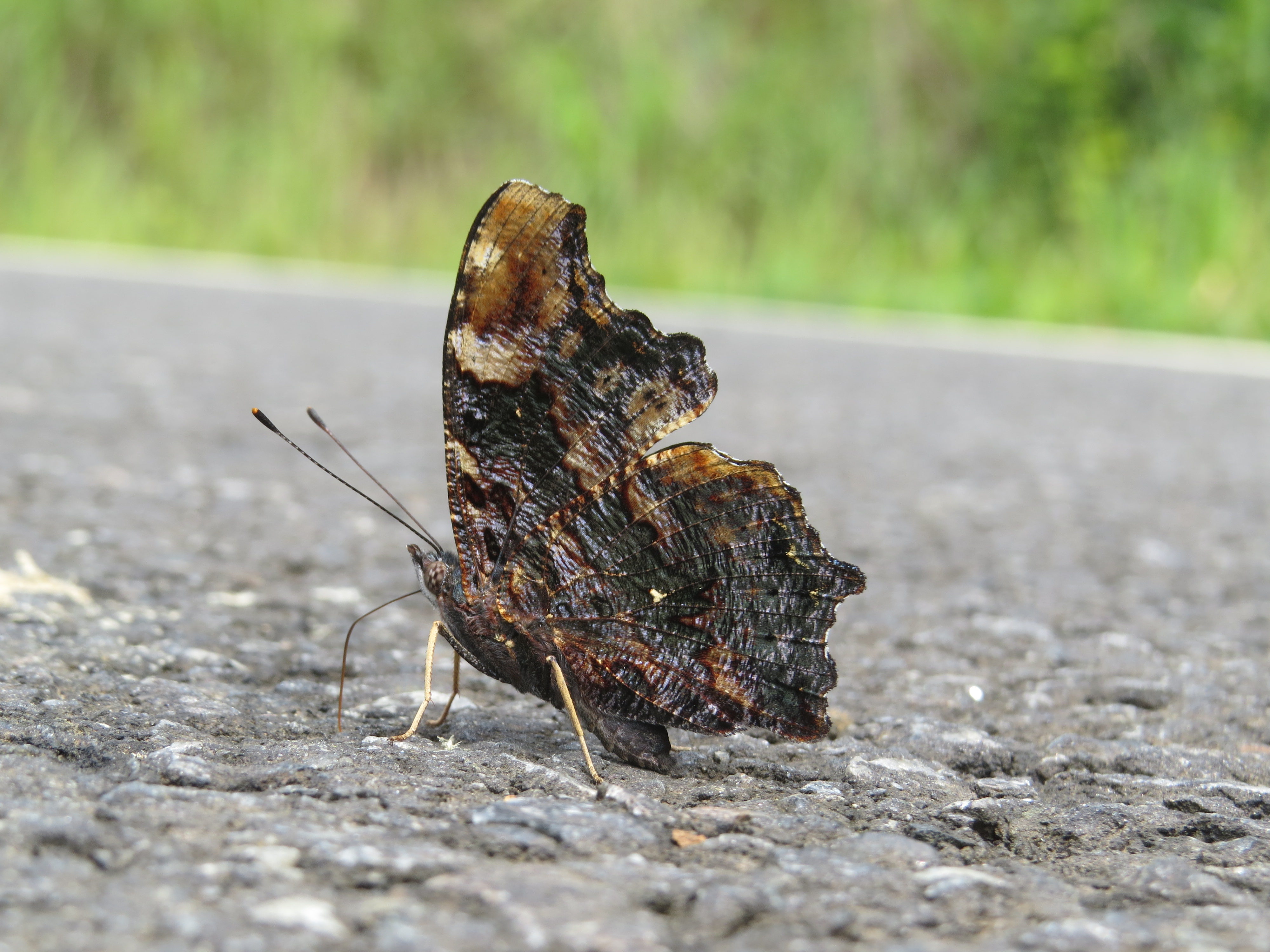 Photos from Maloor, Peravoor, Kerala